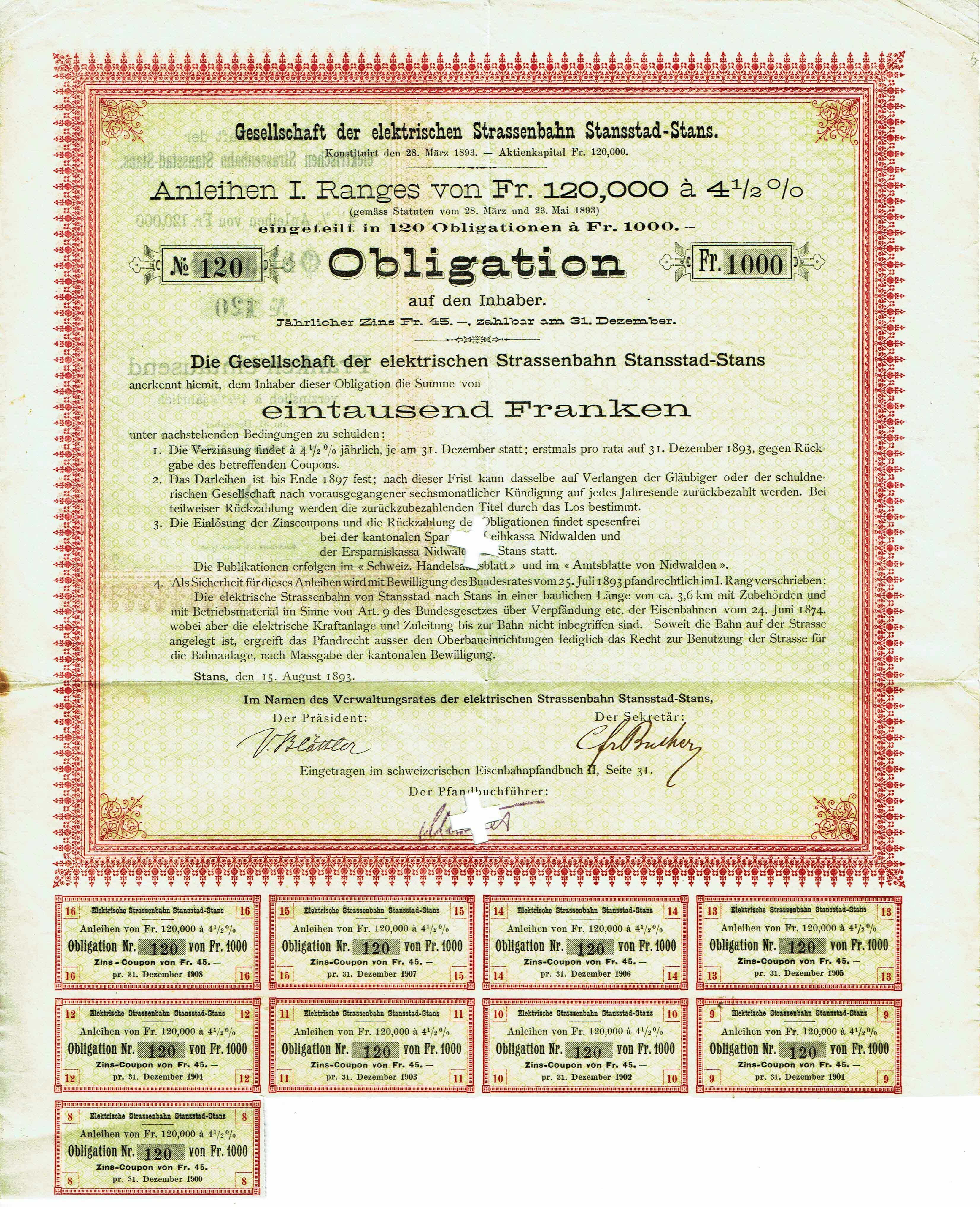 Bond of the Gesellschaft der elektrischen Strassenbahn Stansstad-Stans, issued 15. August 1893